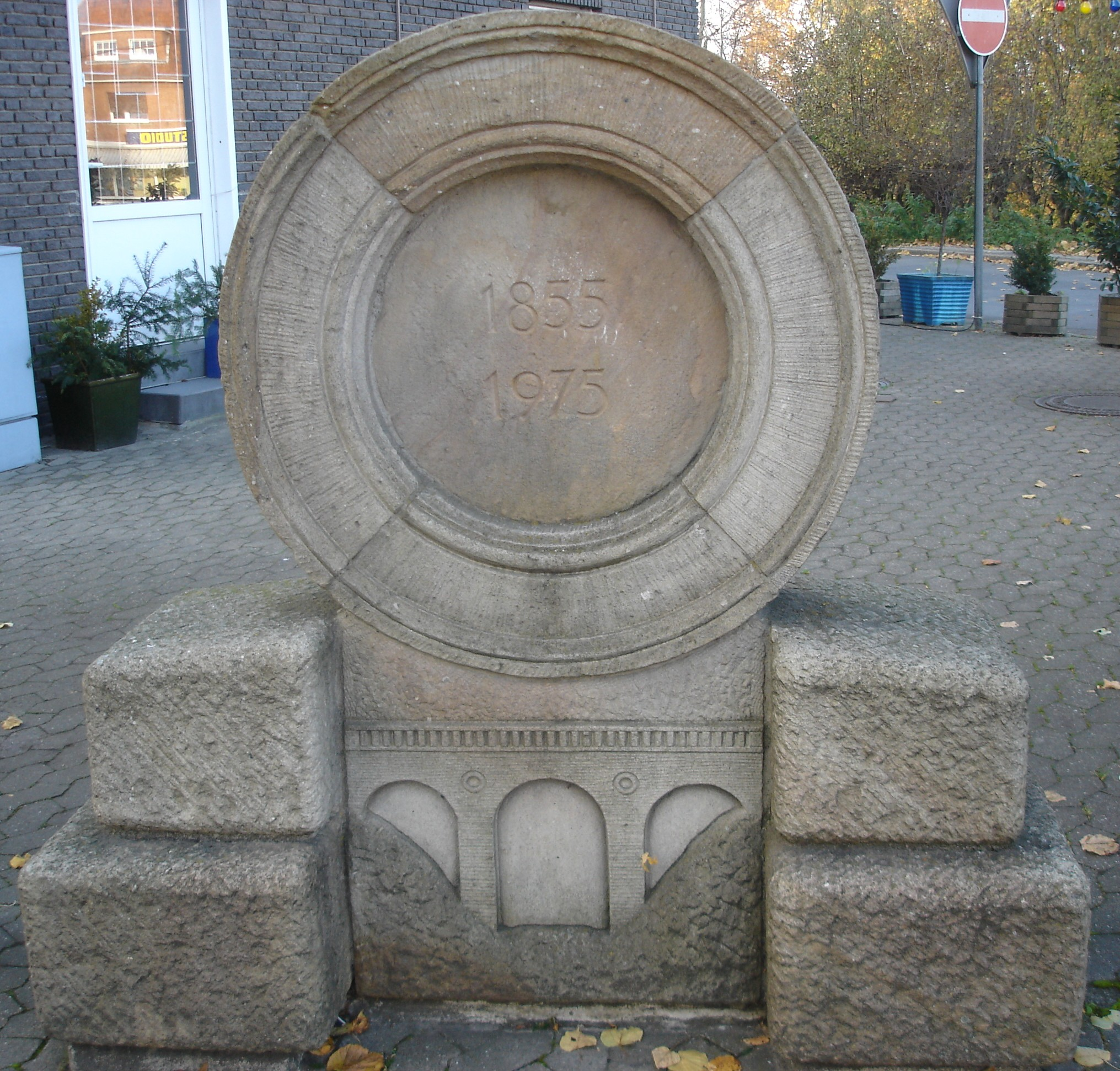 Monument of the old stonebridge in Laggenbeck (borough of the city of Ibbenbüren)